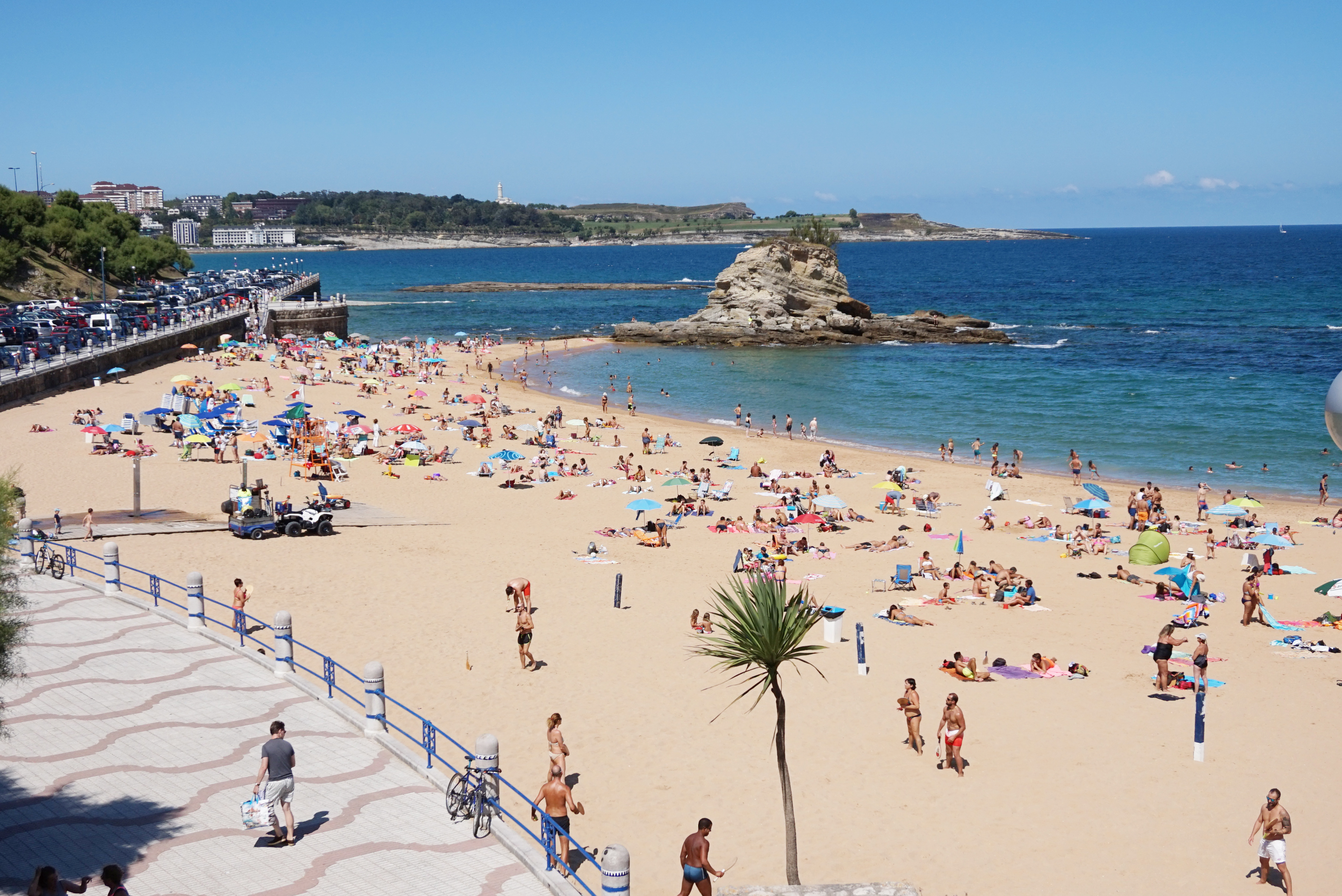 The beach Playa Del Camello in Santander, Spain.This photograph was taken with a Sony ILCE-5000